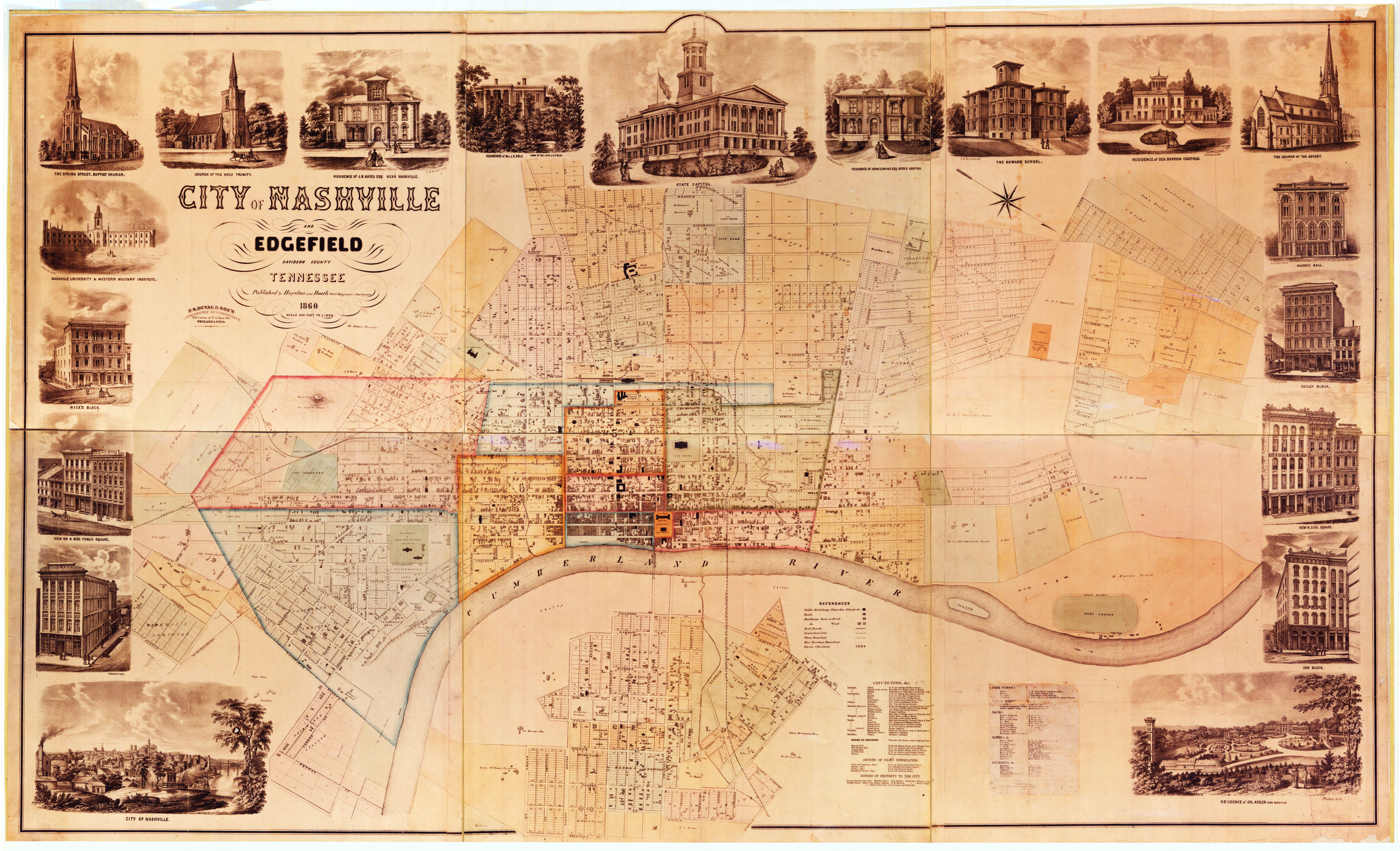 The 1860 Haydon & Booth map shows public buildings, banks, stone or brick buildings, wood buildings, railroads, ward boundaries, and ward numbers. Indexes churches, houses of industry, offices of daily newspapers, donors of property to the city, free schools, banks, hotels, and foundries. Border includes nineteen pictures of prominent buildings and views: City of Nashville, Douglass Hall, View on N. Side Public Square, Hick's Block, Nashville University, and Western Military Institute, The Spring Street Baptist Church, Church of the Holy Trinity, Residence of J.B. Hayes, Esq. Near Nashville, Residence of Mrs. J.K. Polk, State Capitol, Residence of John D. Ewing, Esq., Boyd's Addition, The Howard School, Residence of Gen. Barrow, Edgefield, The Church of the Advent, Masonic Hall, Ensley Block, View N. Side Square, Inn Block, and Residence of Col. Acklen Near Nashville. Historical Note Drawn just before the Civil War, the Haydon & Booth map of Nashville is one of the most detailed and informative depictions of the antebellum city (plus the Edgefield community). In addition to a street map, it provides a 2-dimensional rendering of the footprint of each house and structure, block-by-city block. It also names civic and private buildings, landowners, and significant natural features such as streams and springs.